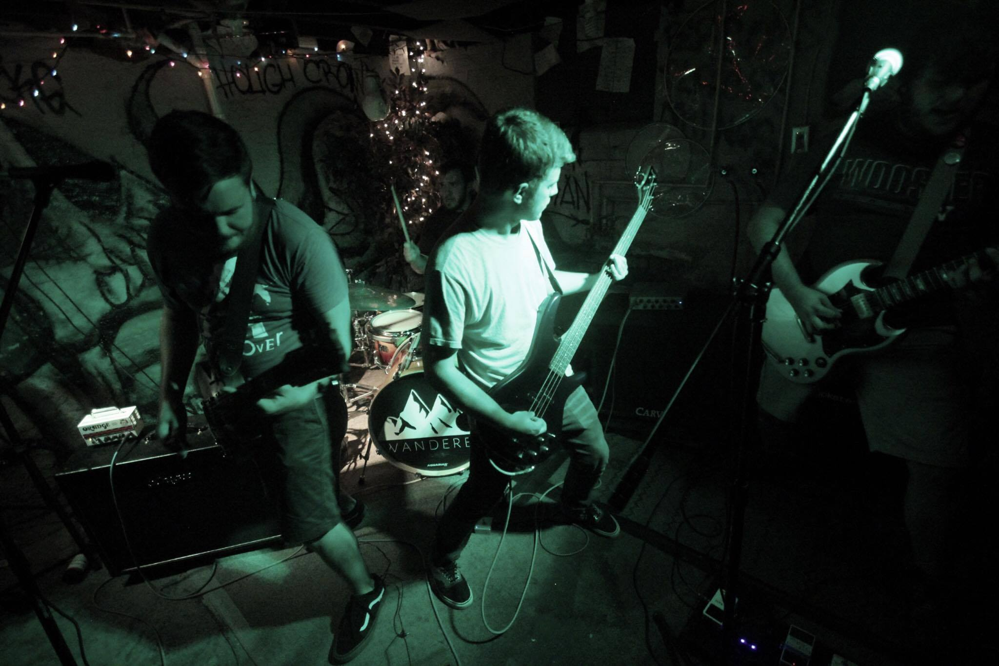 American rock band What's Missing performing a show in Cleveland, Ohio, on July 15, 2017.